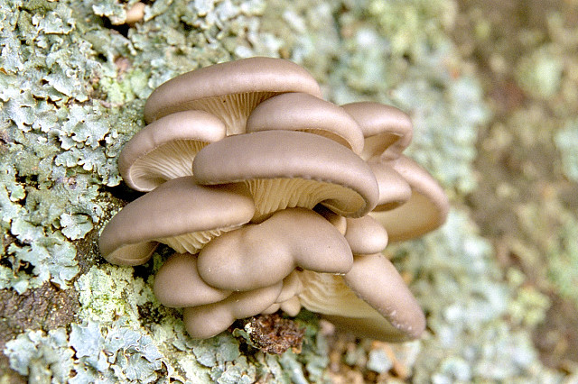 Pleurotus ostreatus from Commanster, Belgium. The determination of the species shown in this picture has been verified.